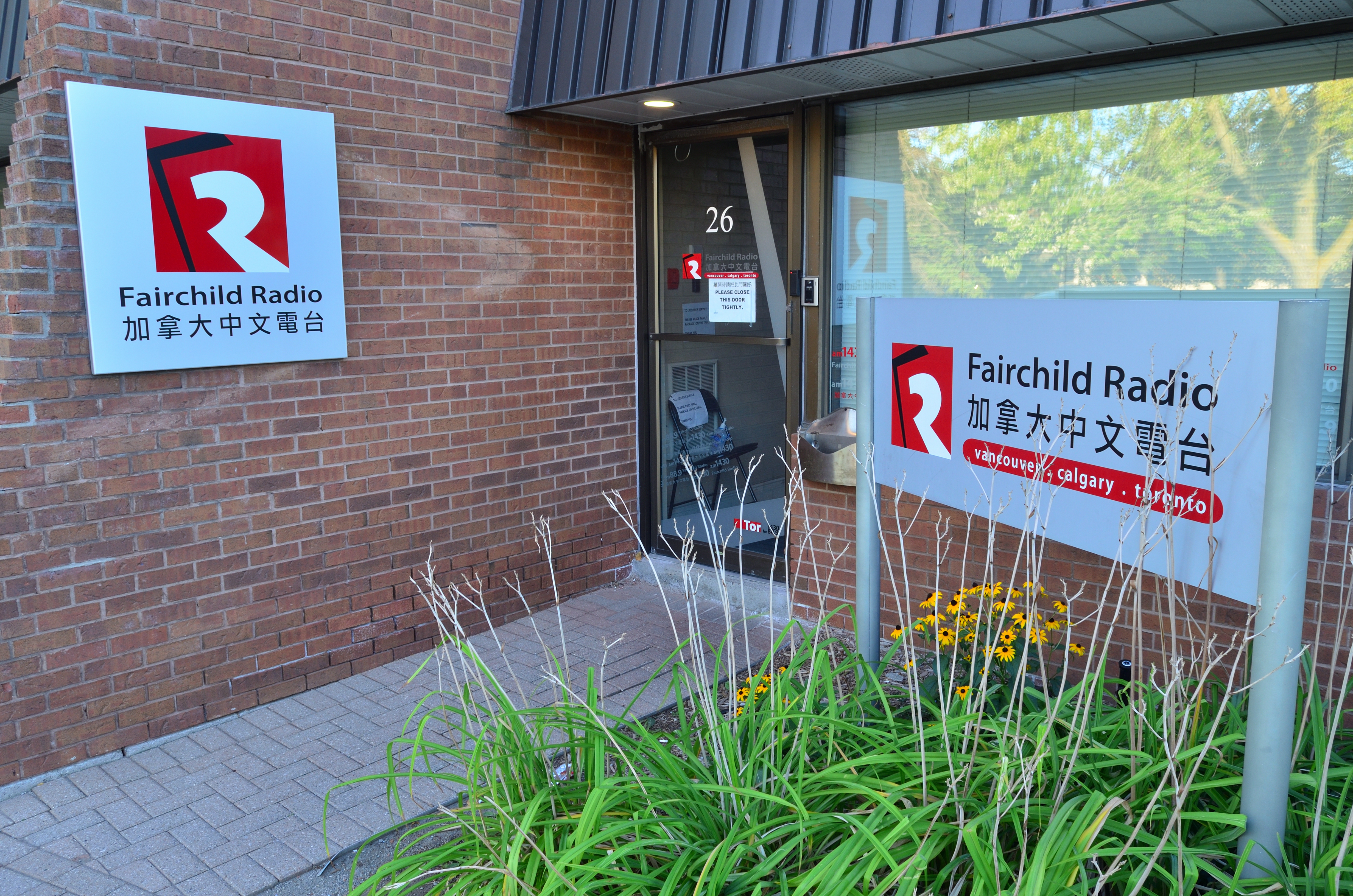 Fairchild Radio - Address: 151 Esna Park Drive, Markham, ON L3R 3B1